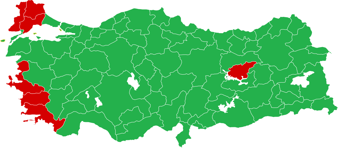 Results of the Turkish Constitutional Referendum of 2007 by province.